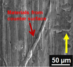 Adhesive wear usually occurs when materials are transferred to the counter sliding surface. In this photograph, some transferred material is revealed through SEM analysis.